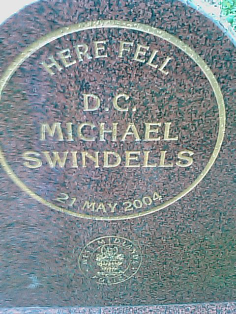 Police Officer Swindells was stabbed once in the chest, while pursuing a suspect, known to be armed with a kitchen knife, on a towpath of the Tame Valley Canal underneath the Gravelly Hill 'Spagetti Junction' Interchange in Aston, Birmingham, UK.